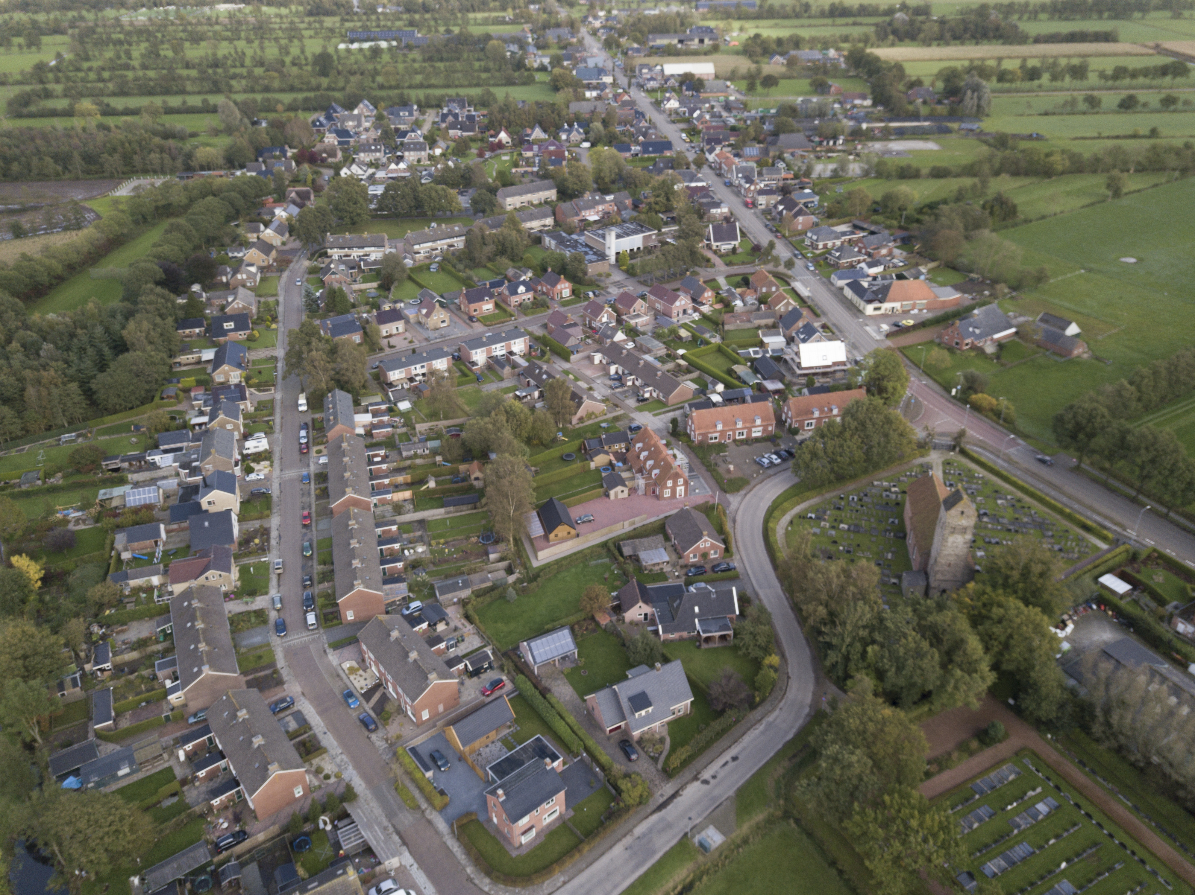 Aerial picture of the village of Doezum